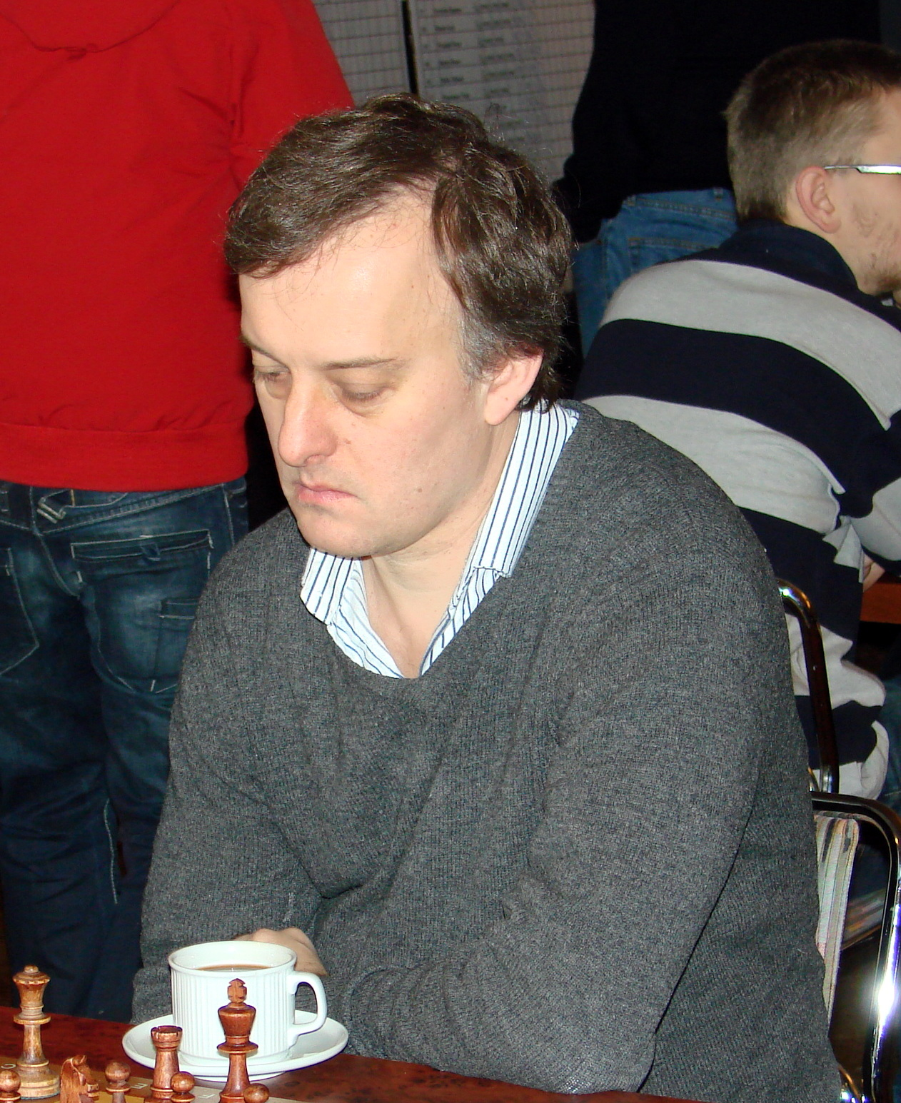 GM Ralf Akesson (Sweden), Rilton Cup Stockholm 2009/10